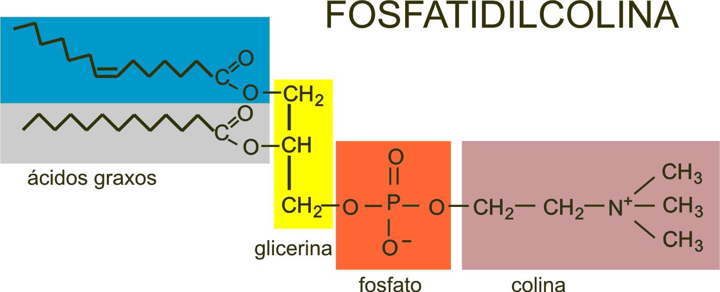 Phosphatidylcholine formula Gallician jpg